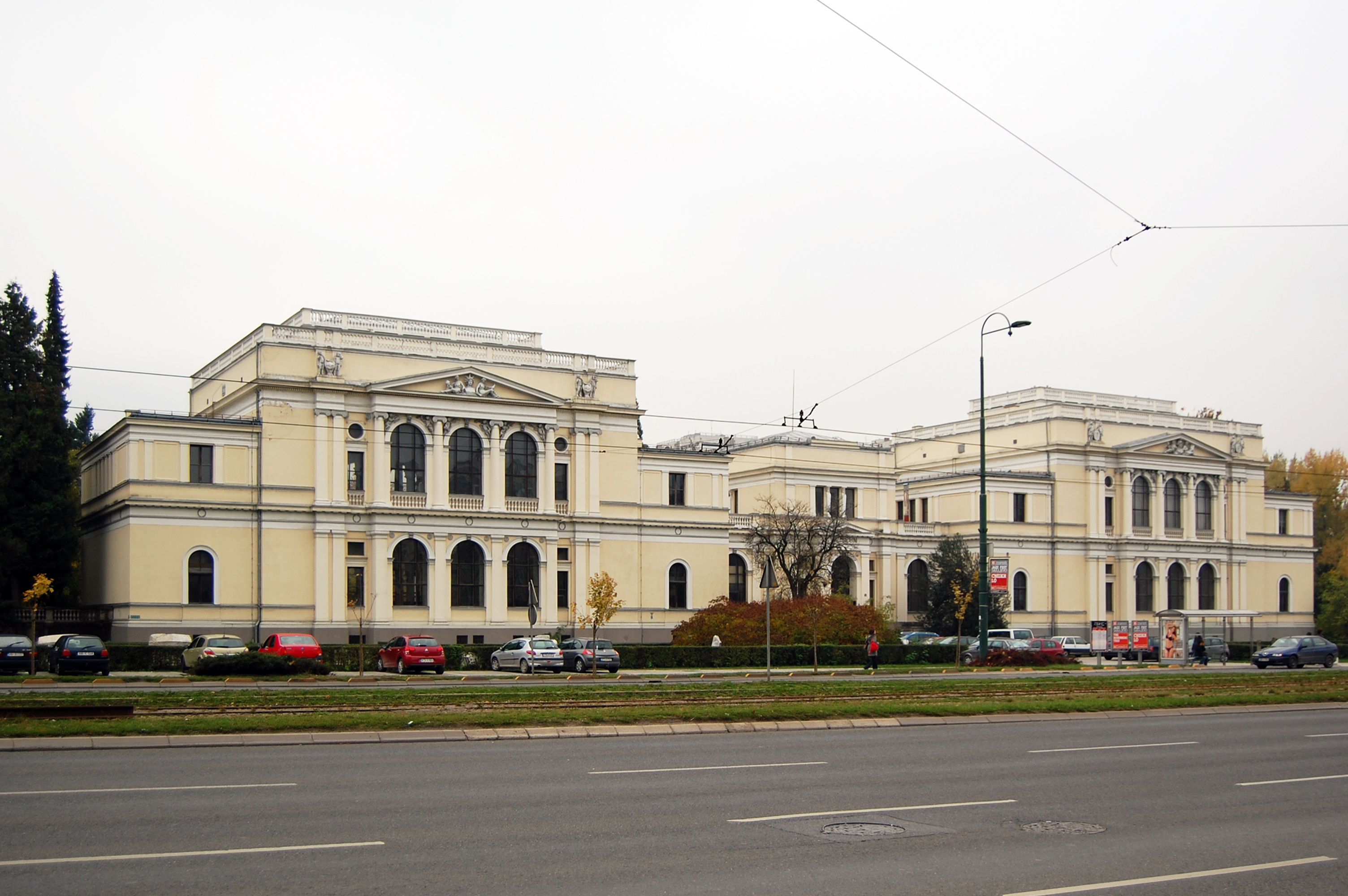 The National Museum in Sarajevo